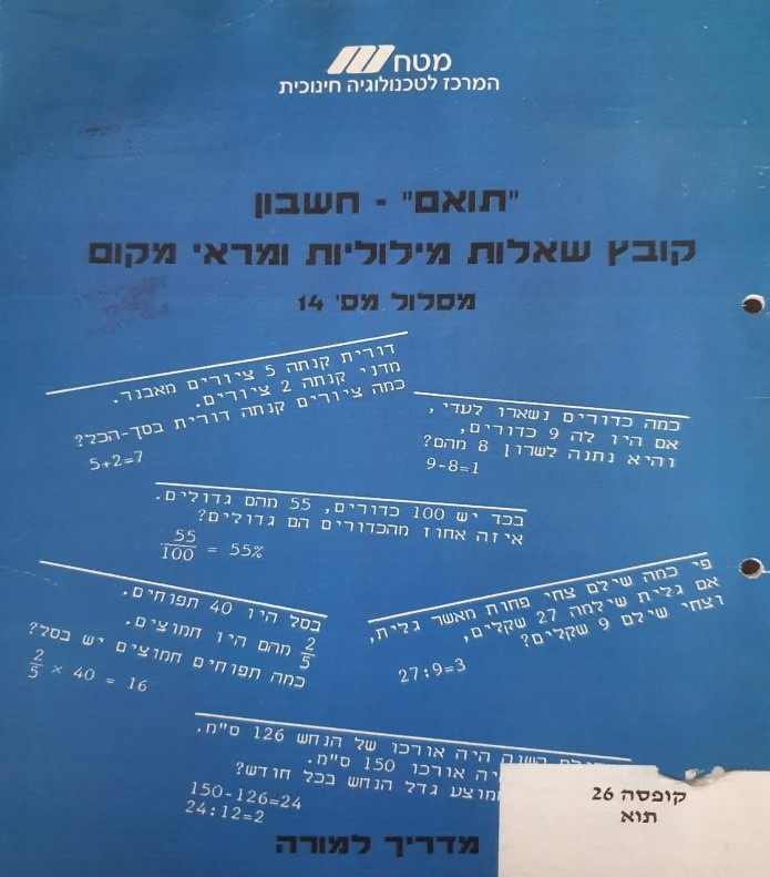 Cover of TOAM Math book Track 14 - Math Problems